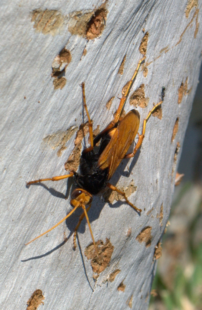 A spider wasp (Cryptocheilus bicolor) at St John's Ashfield in Sydney, NSW, Australia.